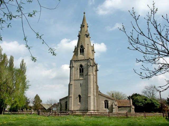 St Edith, Anwick The church stands about 4½ miles north-east of Sleaford, just off the A153. A statue of the Virgin was discovered walled up in the church in 1859.